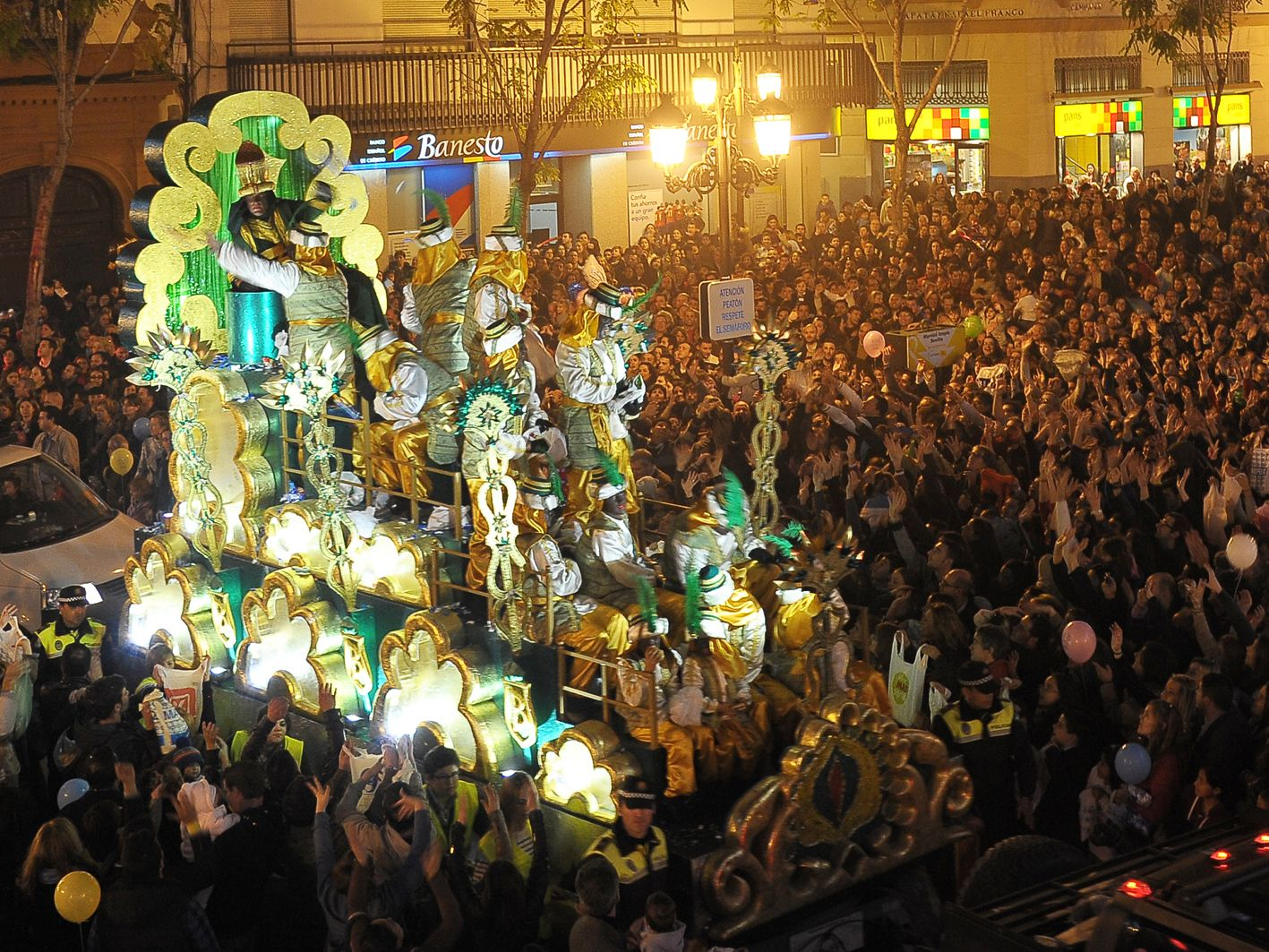 Cabalgata de Reyes Magos 2013. Rey Baltasar.